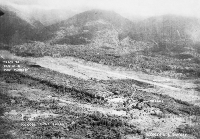 AWM Caption: PAPUA, 1942-07-14. KOKODA VILLAGE AND AIRFIELD.